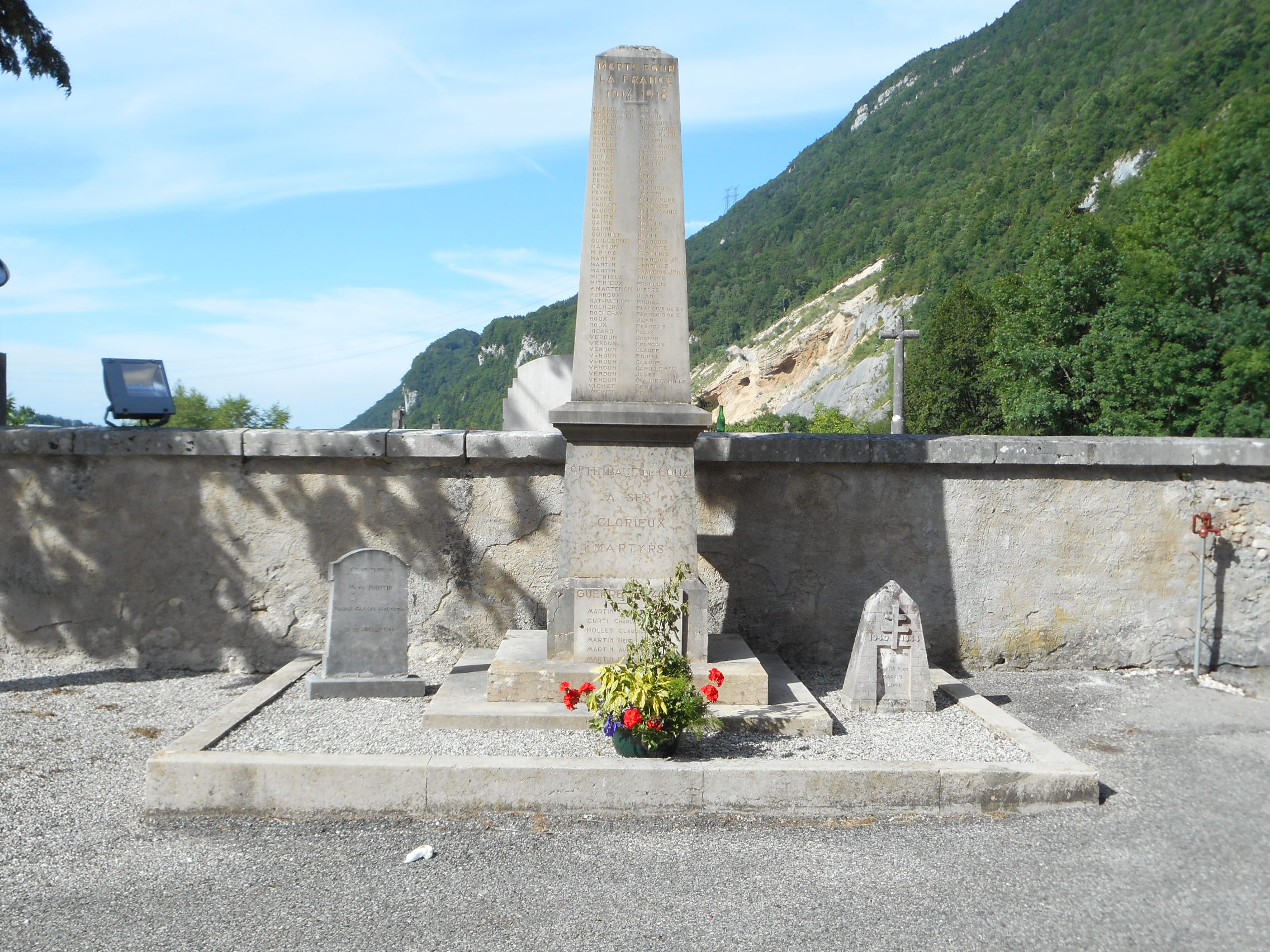 War memorial in Saint-Thibaud-de-Couz.